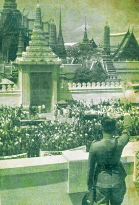 Pibulsonggram speaking at the Grand Palace, welcoming students from Chulalongkorn university on 8 October 1940